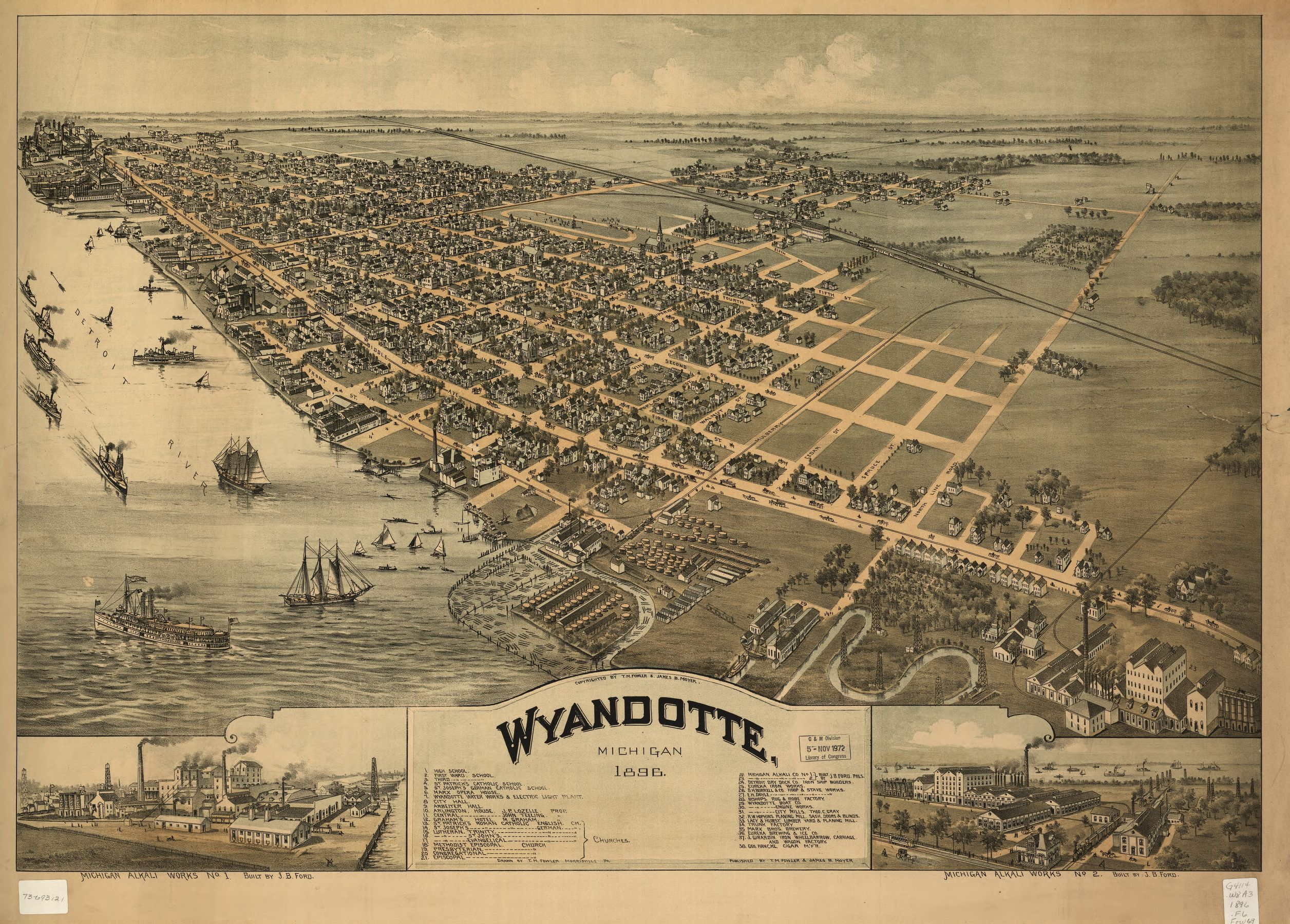 Birds-eye view of Wyandotte, Michigan